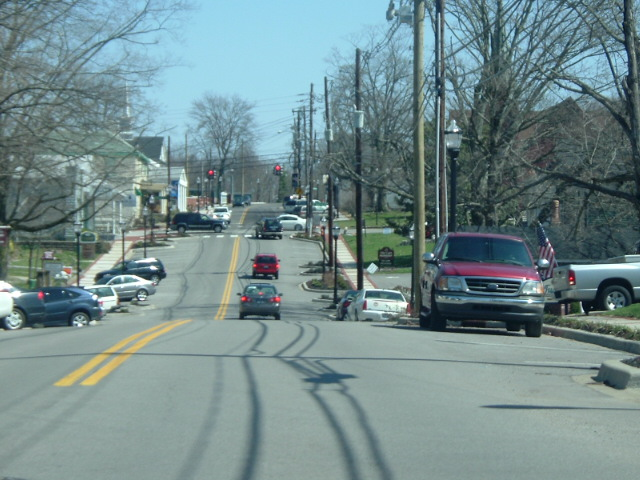 Middletown Main Street LOUKY